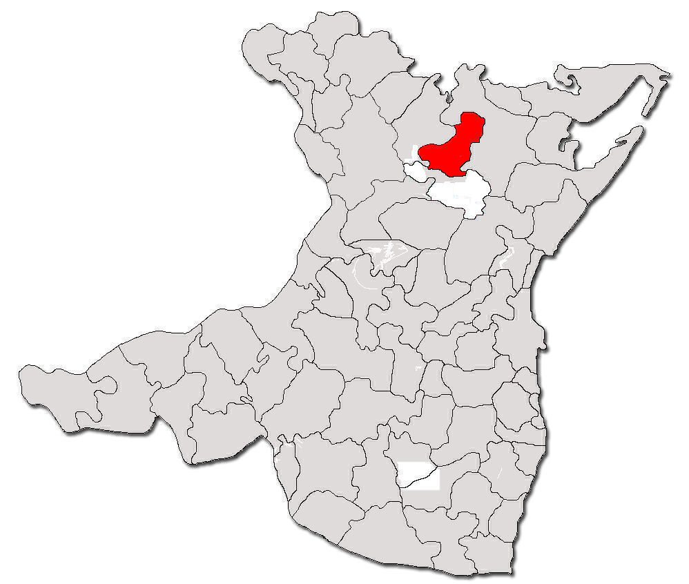 Contour map of Gradina commune